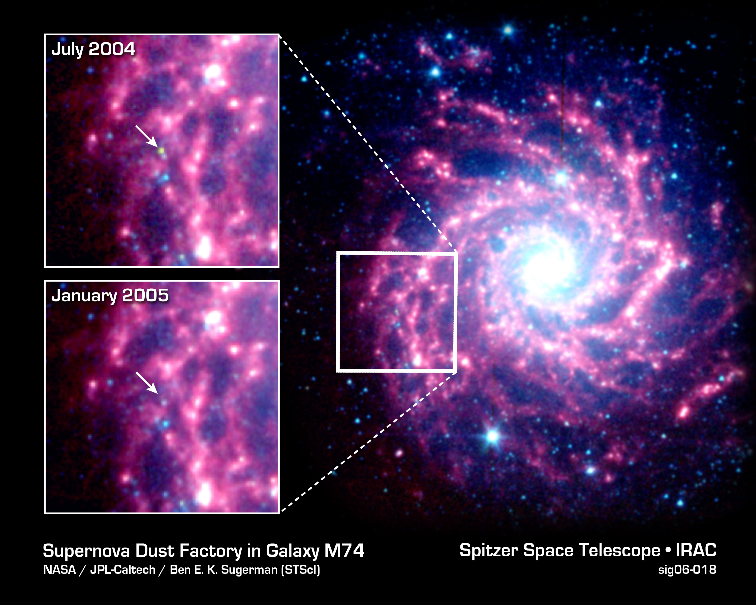 Supernova Dust Factory in M74